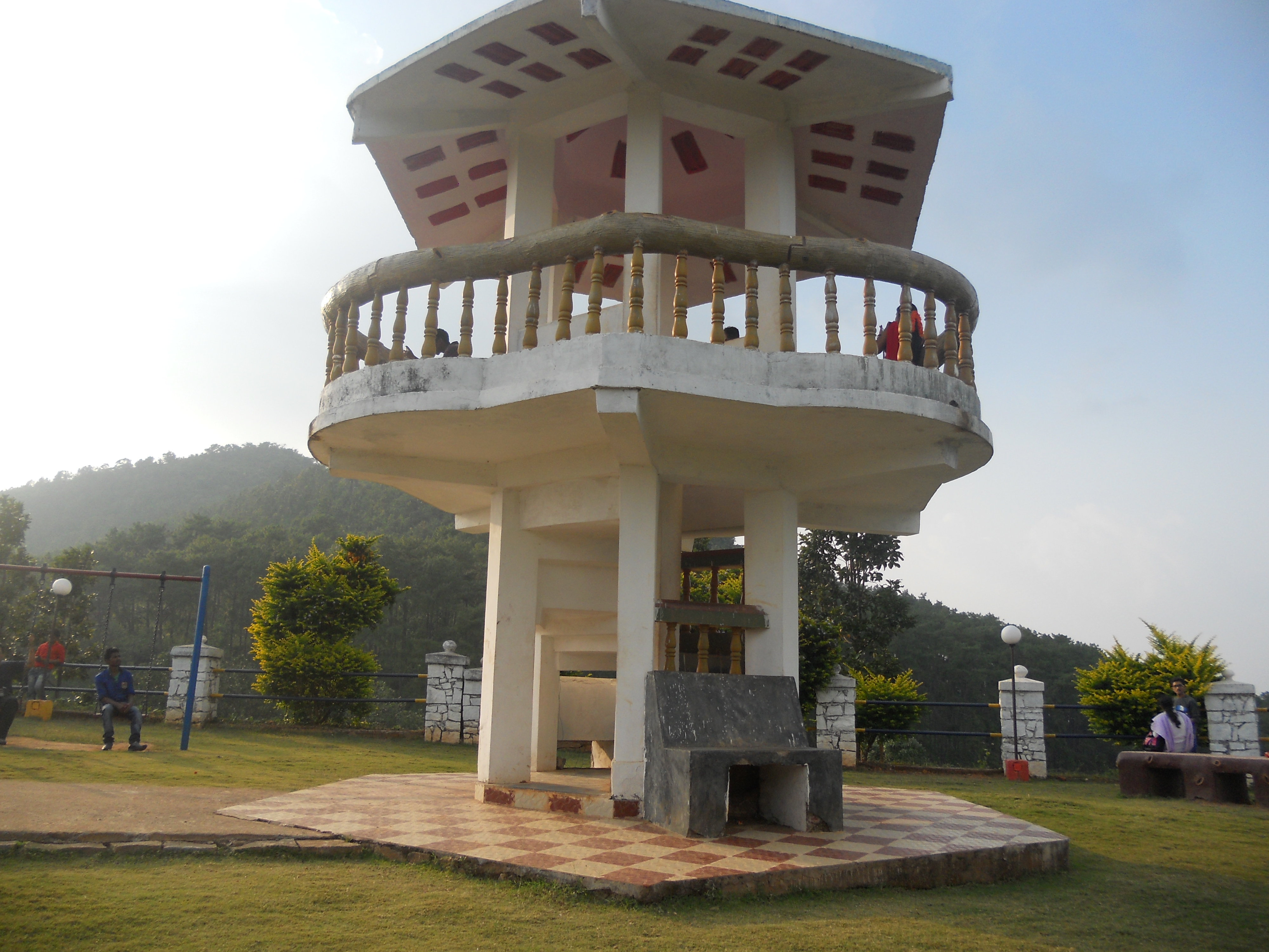 Hill view park at Daringbari, Orissa